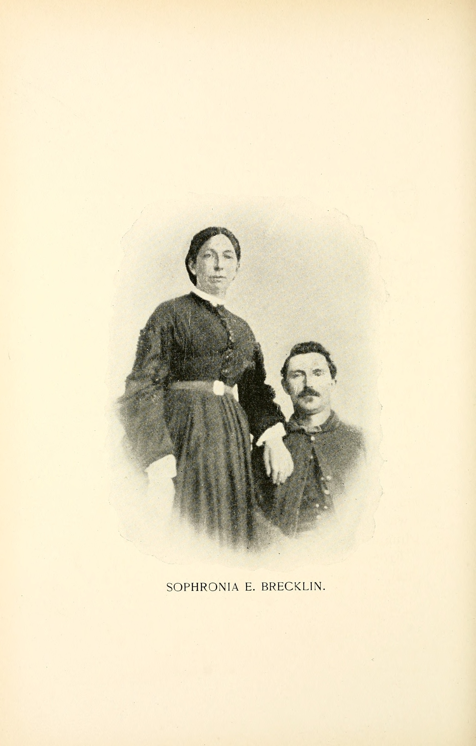 A white woman, standing, with her hand on the shoulder of a seated white man in uniform. She has dark hair, middle-parted and dressed back to the nape. He has a mustache and is wearing a uniform.